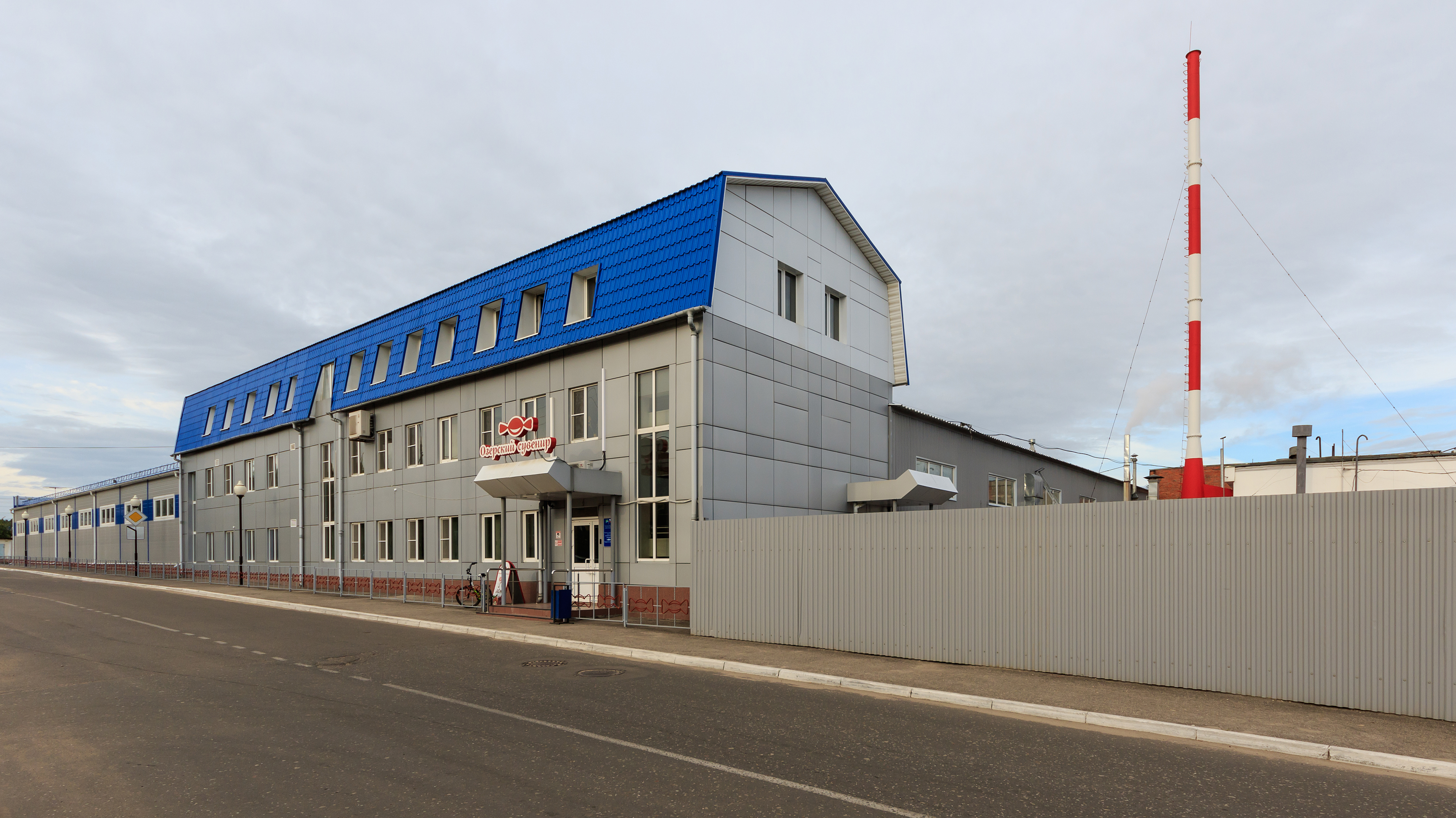 Ozersky Suvenir Confectionery in Ozyory, Moscow Oblast, Russia